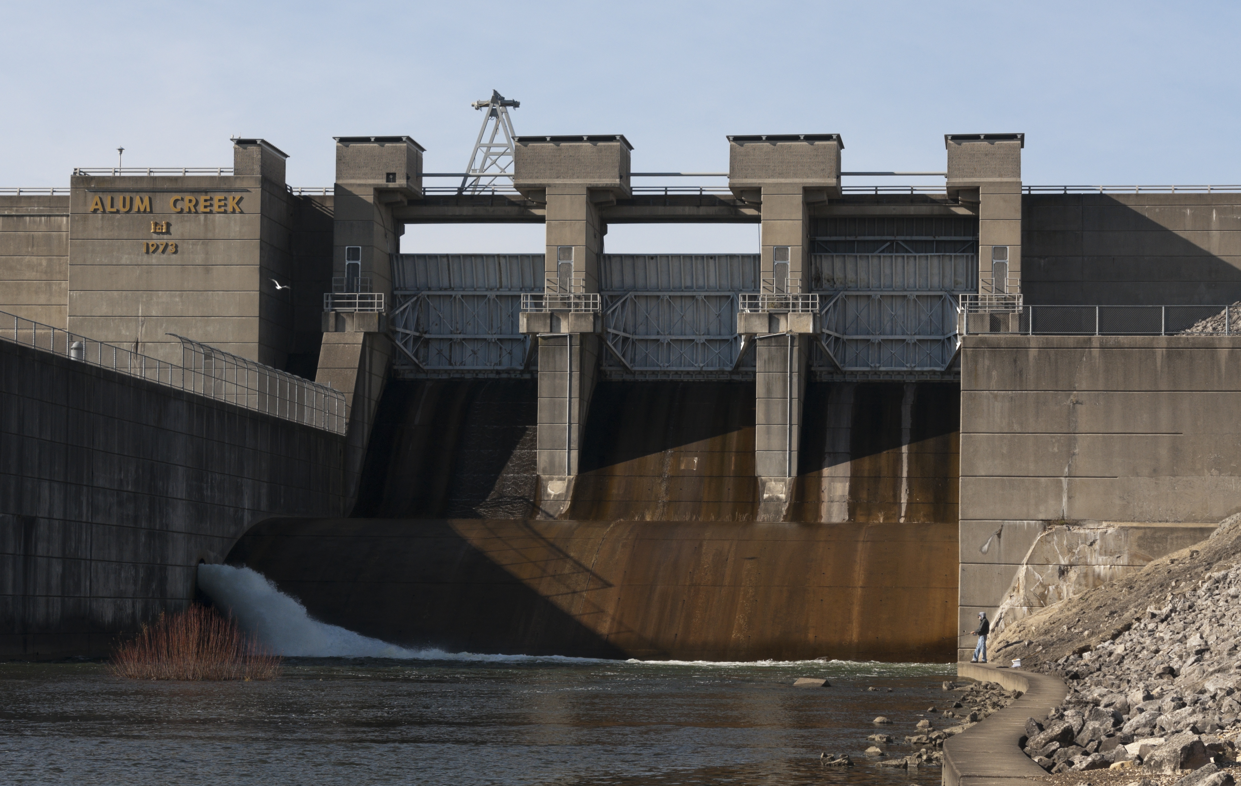 The Alum Creek Dam Spillway and Tainter gates in Alum Creek State Park, Delaware, Ohio. The Alum Creek Dam is 93 feet high. The Low Flow Control Pipe, used for daily operation, can be seen open flowing into Alum Creek.